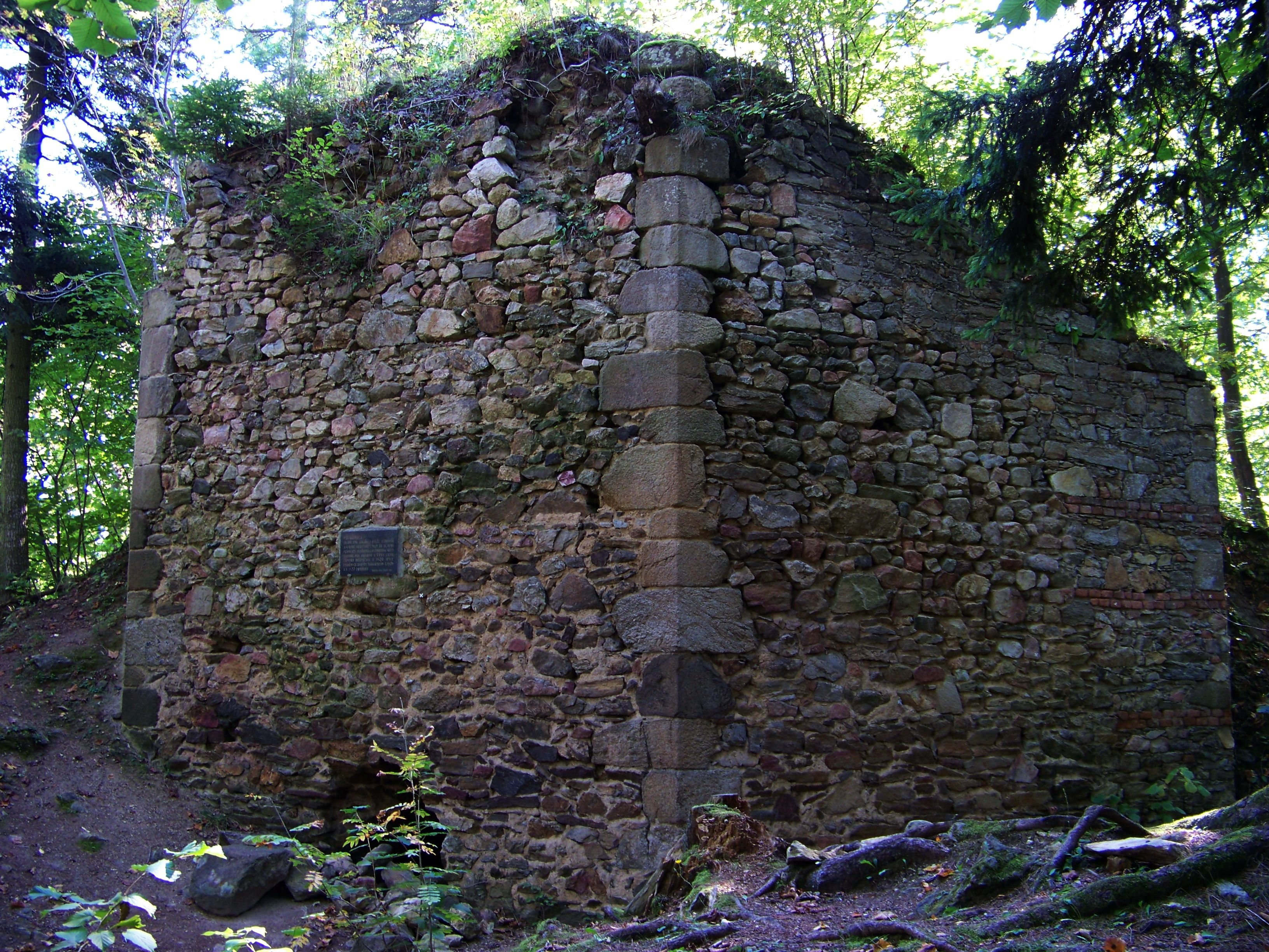 Malšice-Příběnice, Tábor District, South Bohemian Region, the Czech Republic. Příběnice Castle. - OpenStreetMap(Info)